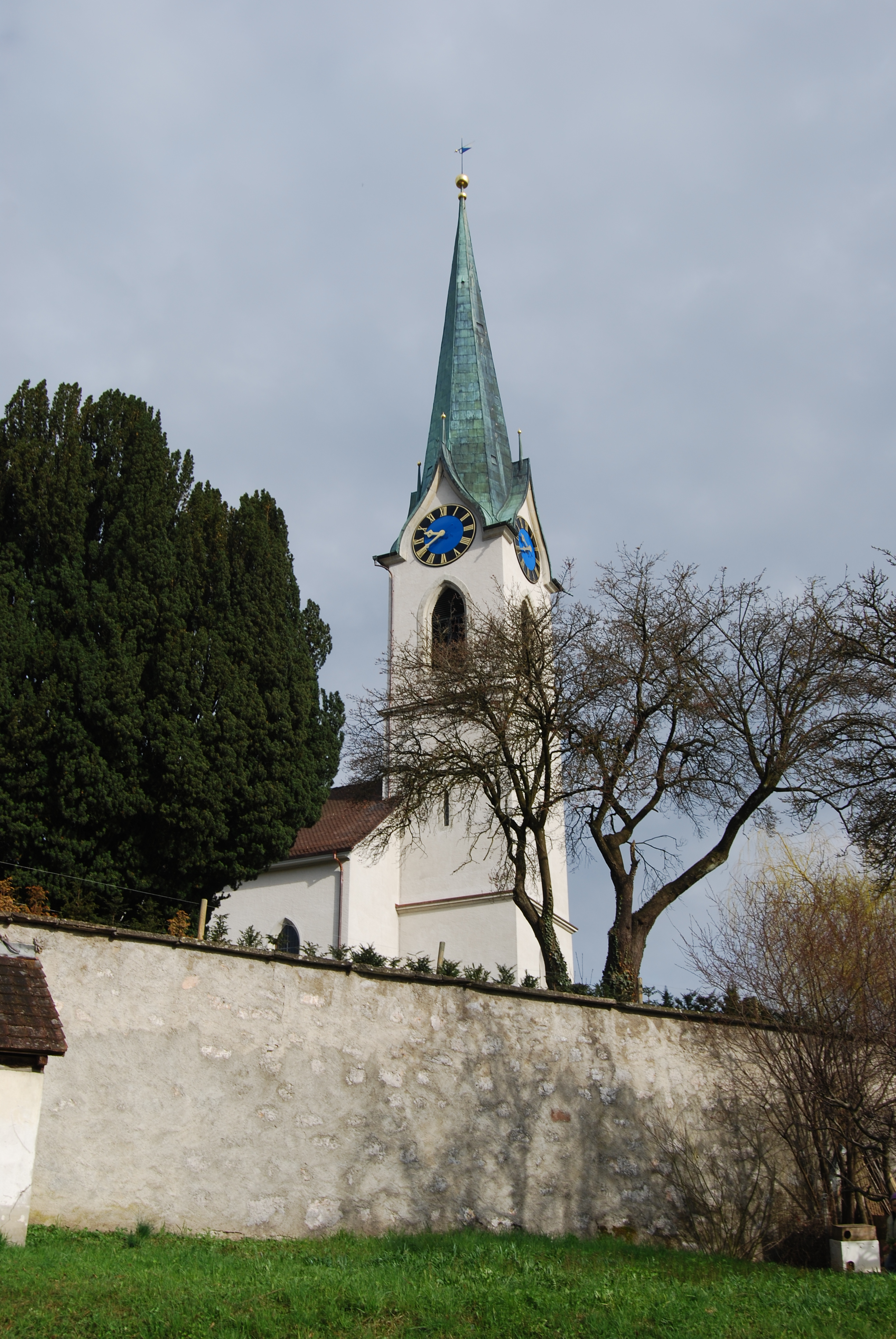 Church of Niederweningen, canton of Zürich, SwitzerlandEsperanto: Preĝejo de Niederweningen, Kantono Zuriko, Svislando